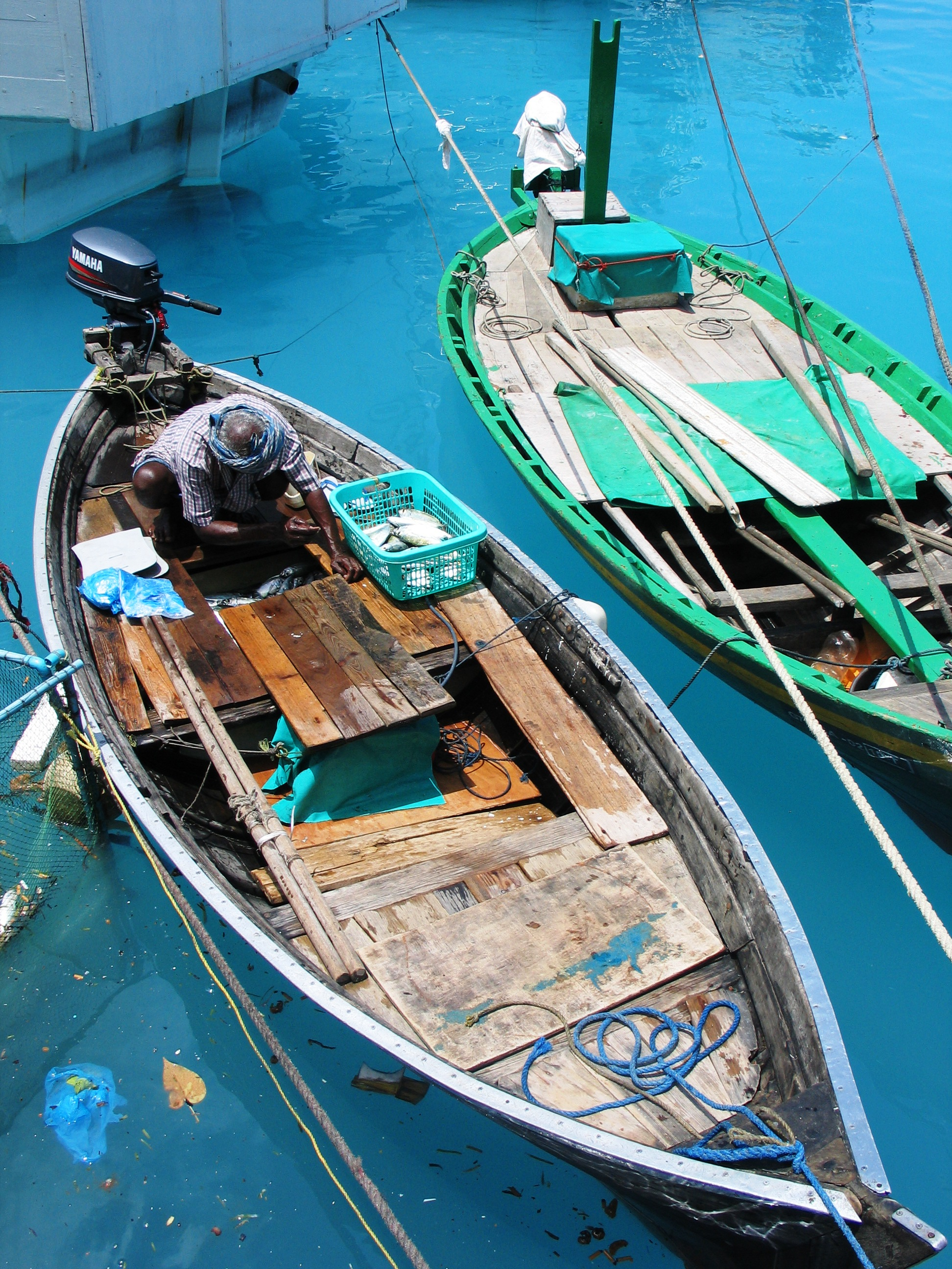 Fishing boats. Maldives 2005. Photo: AusAID